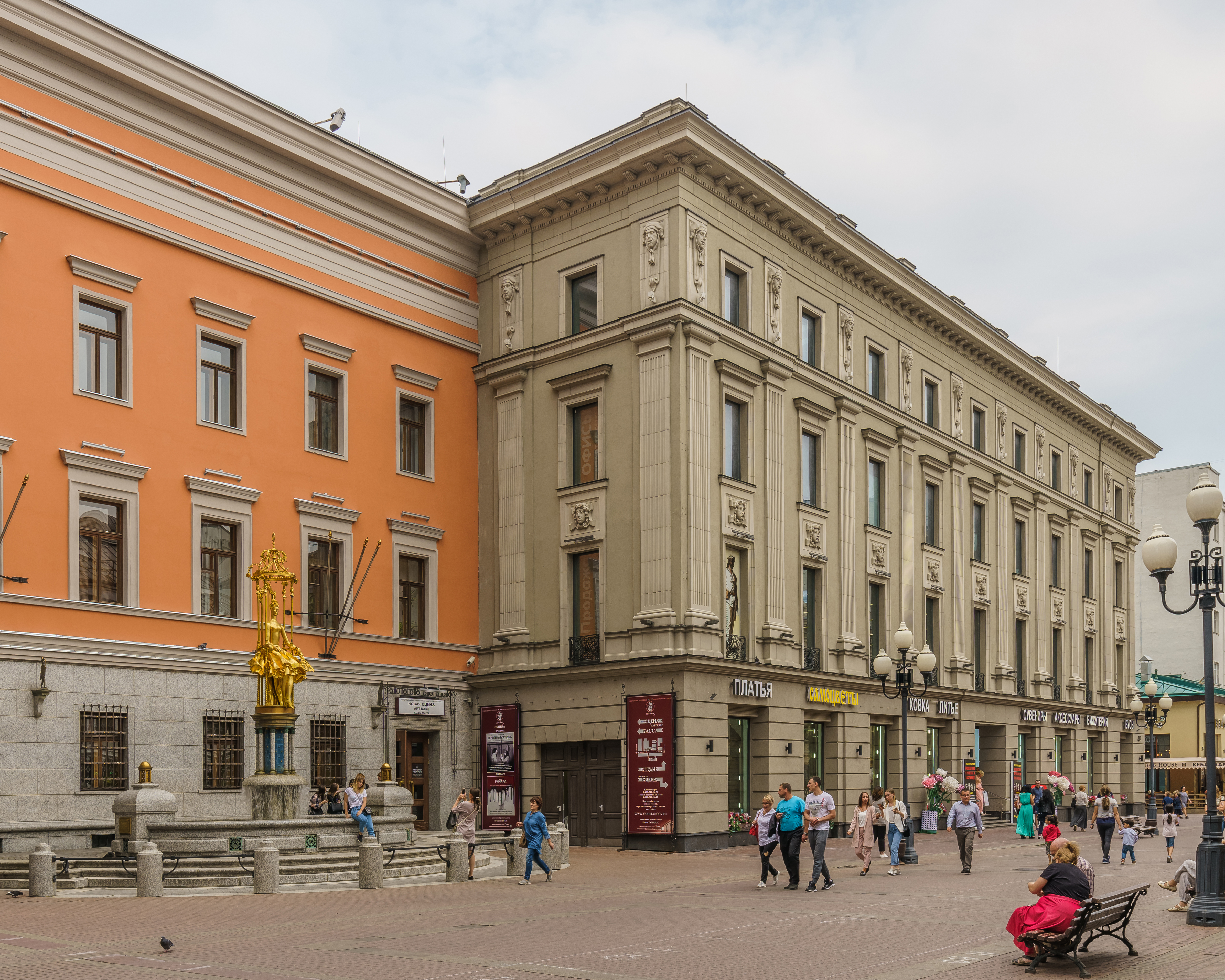 Vakhtangov Theater (new stage) in Moscow, Russia